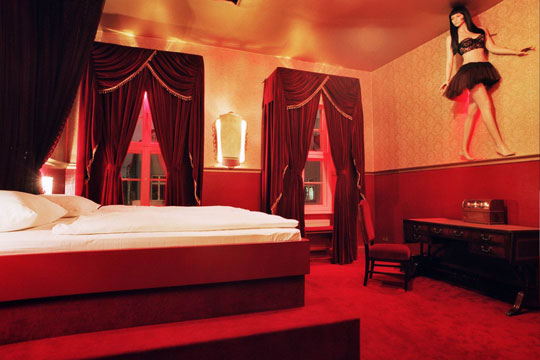 Berlin Hotel Louise